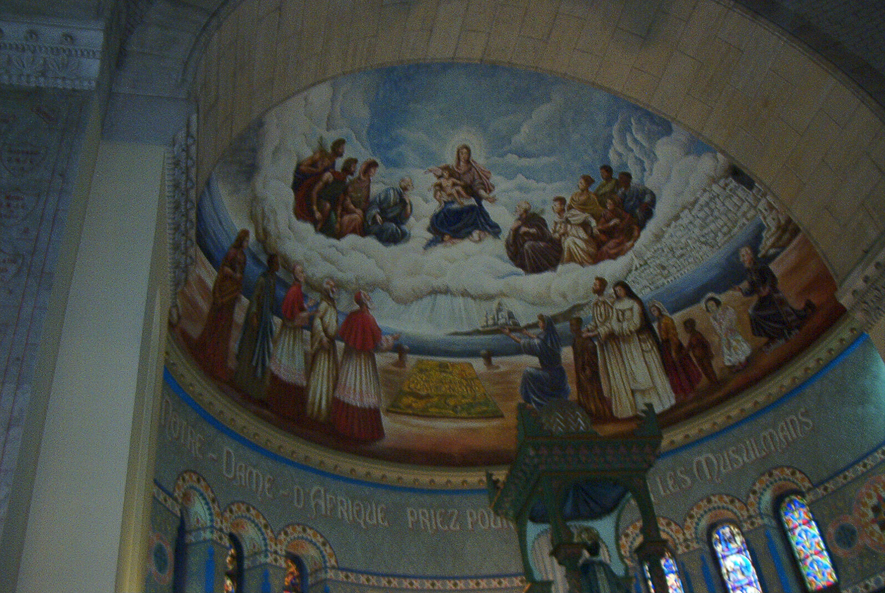 Mural painting the dome of Our Lady of Africa in Algiers